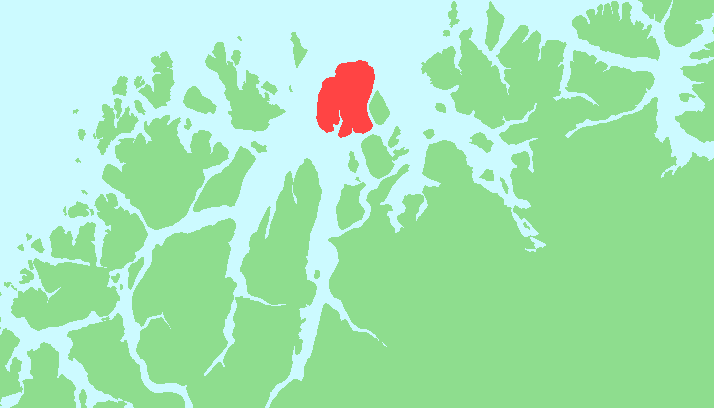 Locator map of Arnøya, Troms, Norway